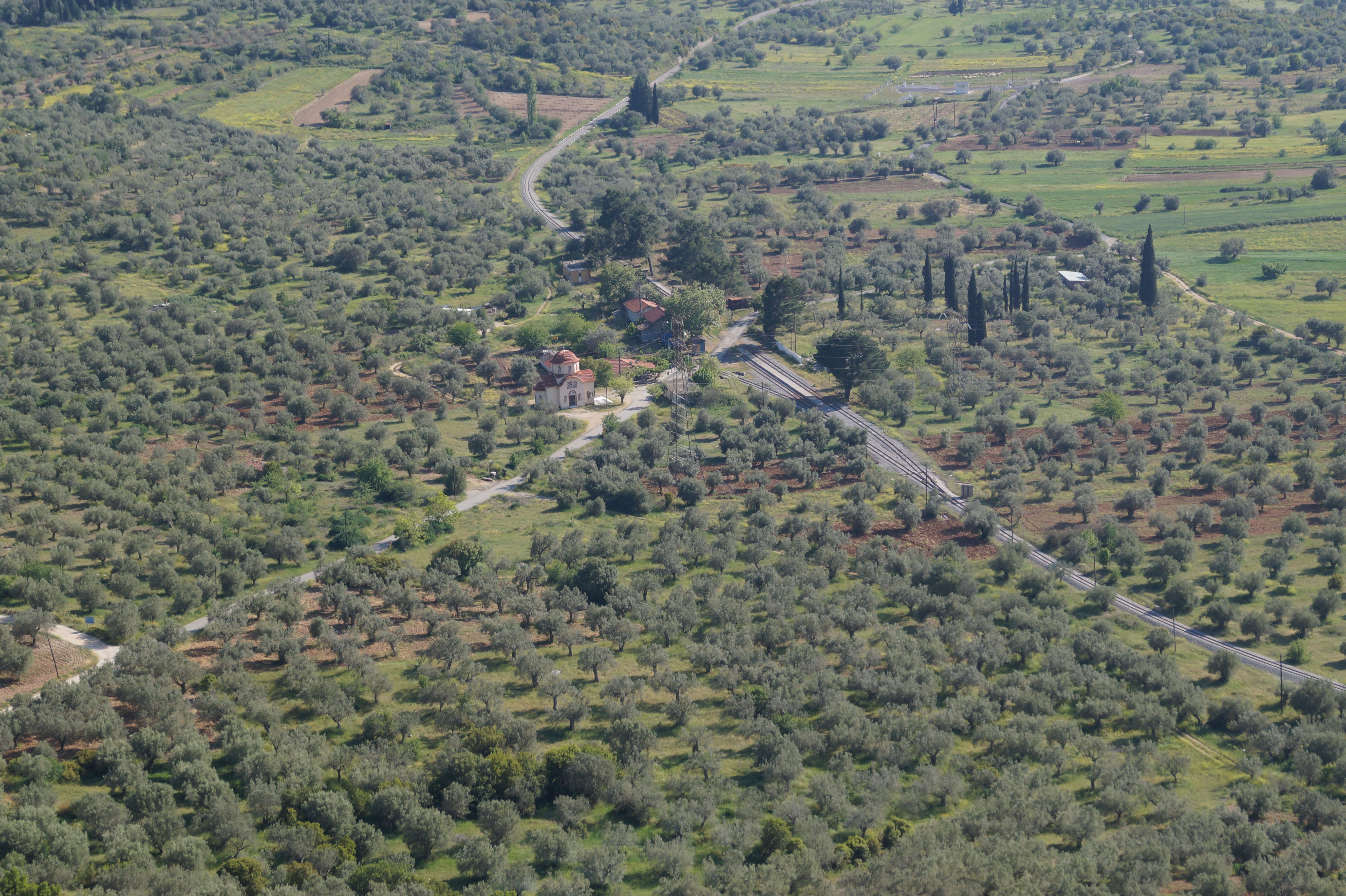 Achladokampos, Peloponnes, Greece: View from ancient Hysiae on the railway station of Achladokampos.